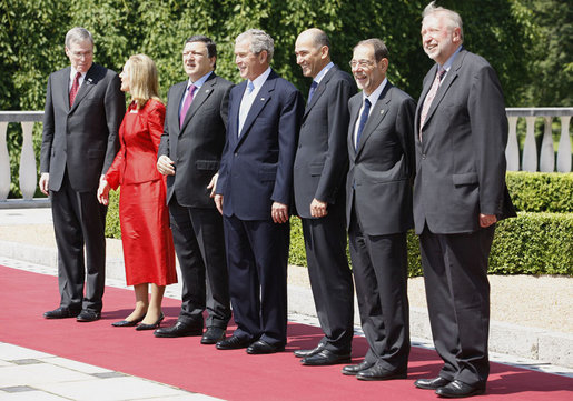 President George W. Bush stands for a photo with a delegation of European Union leaders, joined by National Security Advisor Steve Hadley, left, Tuesday, June 10, 2008 at Brdo Castle in Kranj, Slovenia. From left are, Steve Hadley, U.S. National Security Advisor; Benita Ferrero-Waldner, commissioner for External Relations and European Neighborhood Policy; European Commission President Jose Manuel Barroso; Slovenia Prime Minister Janez Jansa; European Union Secretary General Javier Solana and Dimitrij Rupel, Minister for Foreign Affairs.